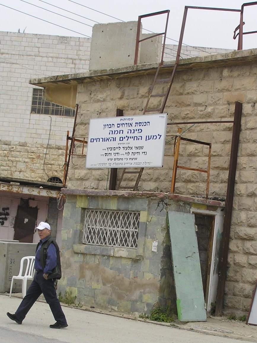 Hebron.